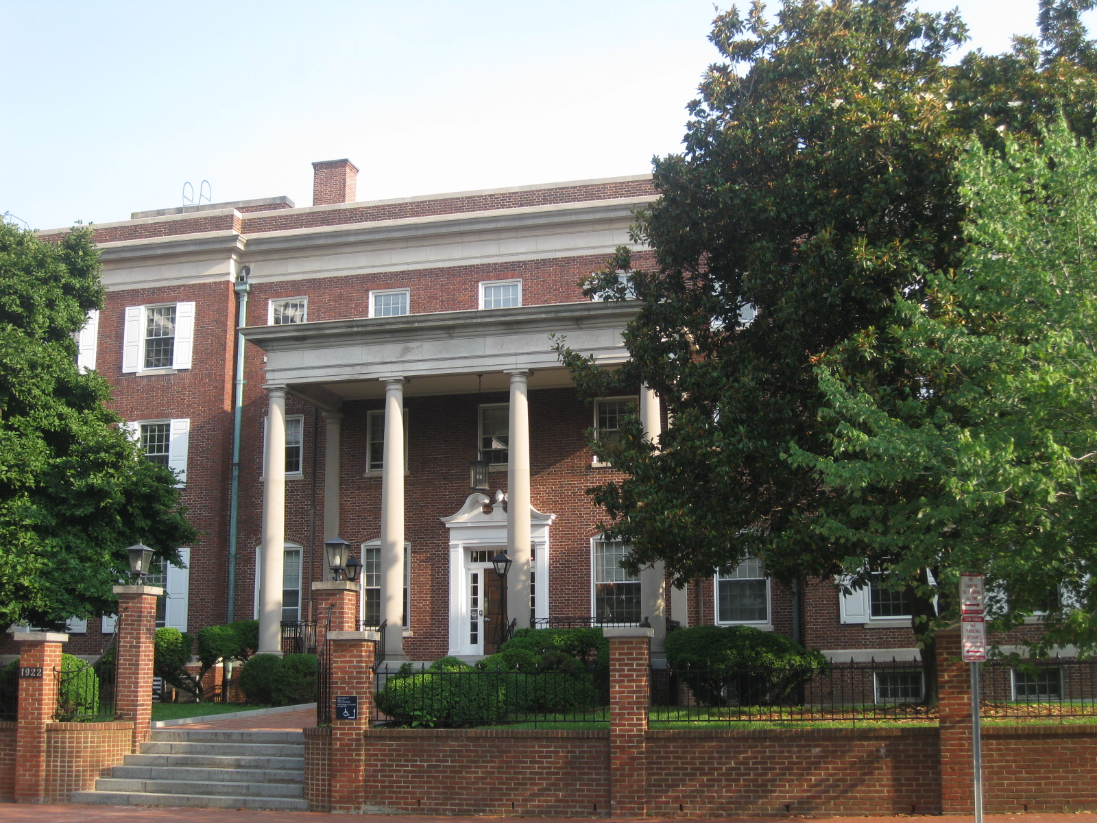 The Old Main building houses the Career Center at the George Washington University on F Street.